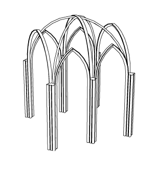 Sexpartite cross-ribbed vault